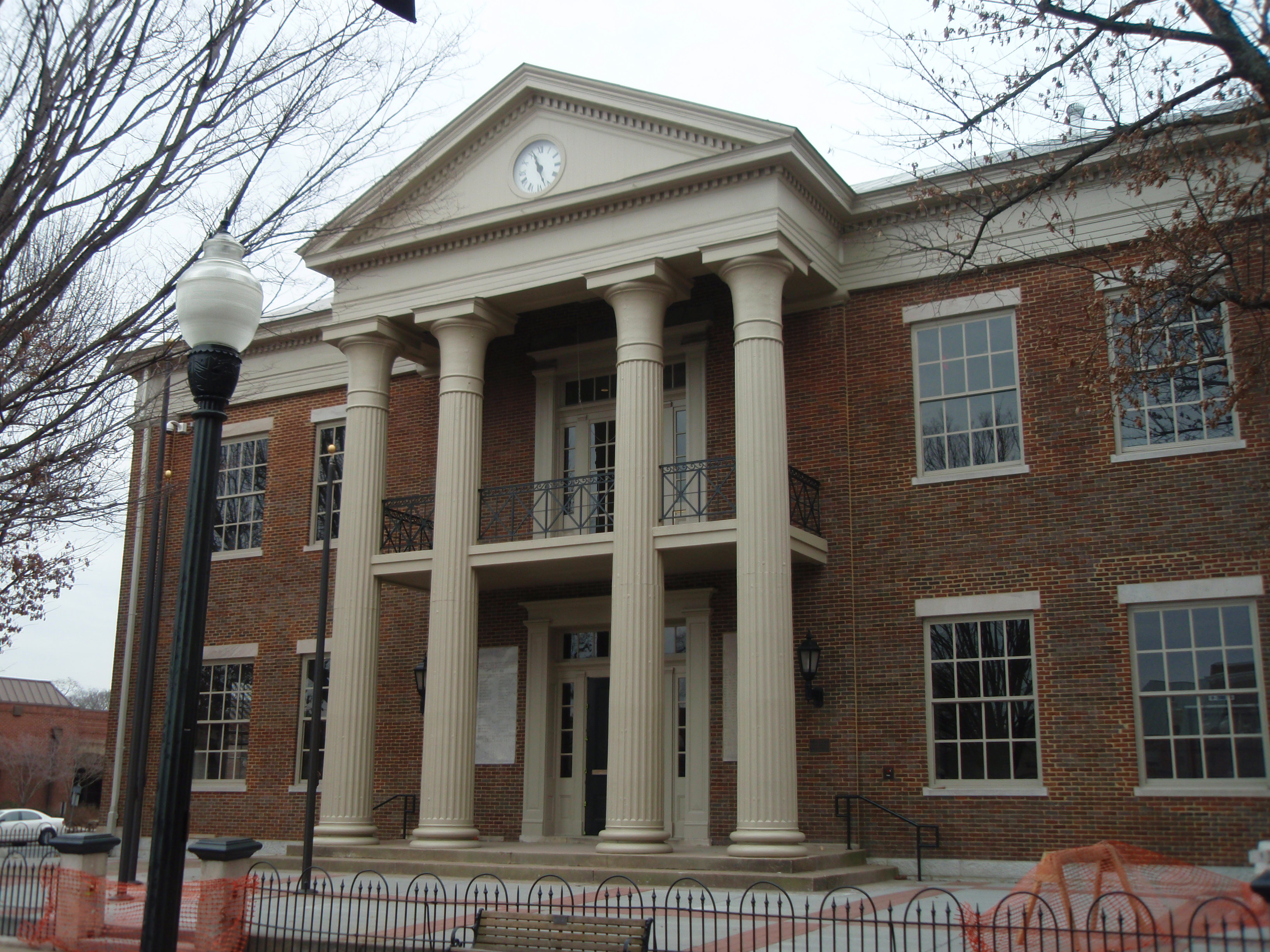 Williamson County Courthouse in Franklin, Tennessee. This is the third courthouse completed in 1858 under the supervision of John W. Miller, is on oe seven antebellum courthouses in Tennessee. The four iron columns were smelters at Fernvale and cast at a Franklin foundry. It was used as a Federal headquarters during the Civil War and served as a hospital after the Battle of Franklin. The interior was remodeled in 1937, 1964, and 1976. The annex was added in 1976. --Text taken from the sign outside of the courthouse by the Williamson County Historical Society 1976.